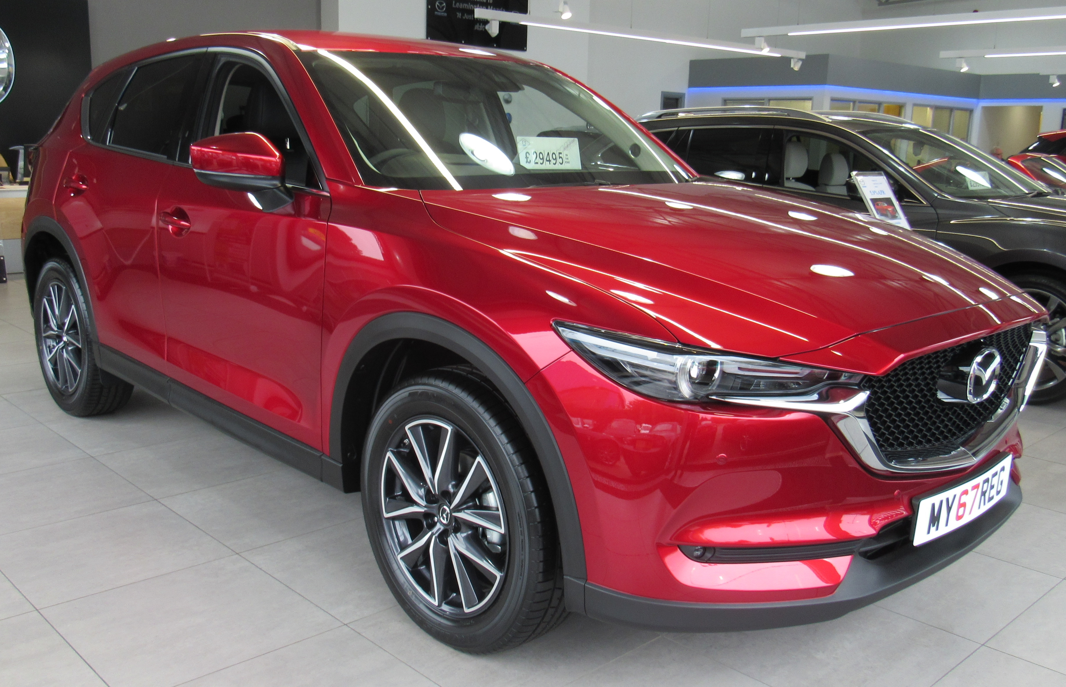 2017 Mazda CX-5 CDTi 2.2 Front Taken in CMC Mazda, Leamington Spa